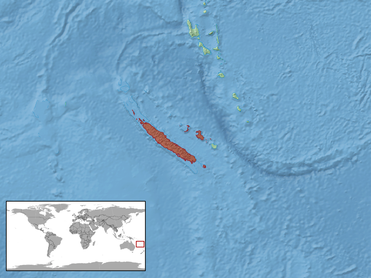 geographic distribution of Phoboscincus garnieri